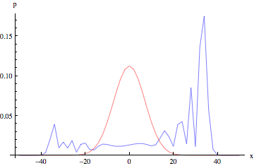 Probability distribution resulting from one dimensional discrete time random walks. The quantum walk created using the Hadamard coin is plotted (blue) vs a classical walk (red) after 50 time steps.